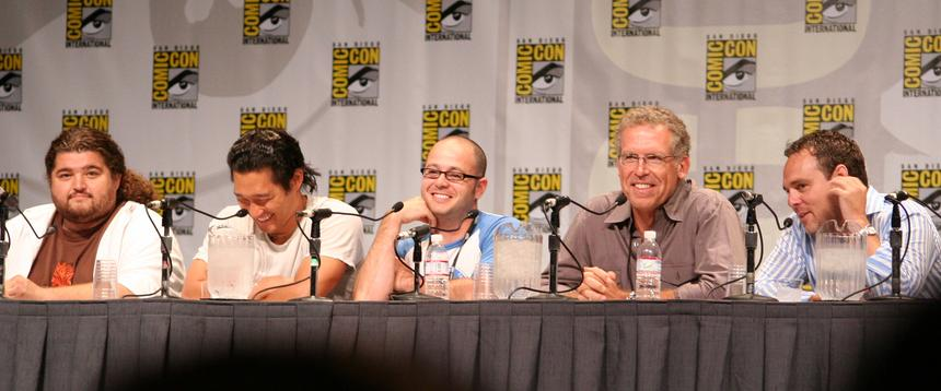 Lost panel at Comic-Con International in San Diego